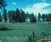 View of one of the Point of Pines Sites, a National Historic Landmark near Morenci, Arizona, United States